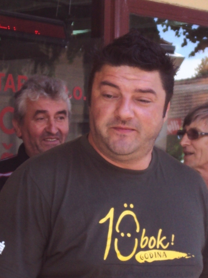 Croatian actor Goran Navojec, Bok fest - theatre festival in Bjelovar, Croatia